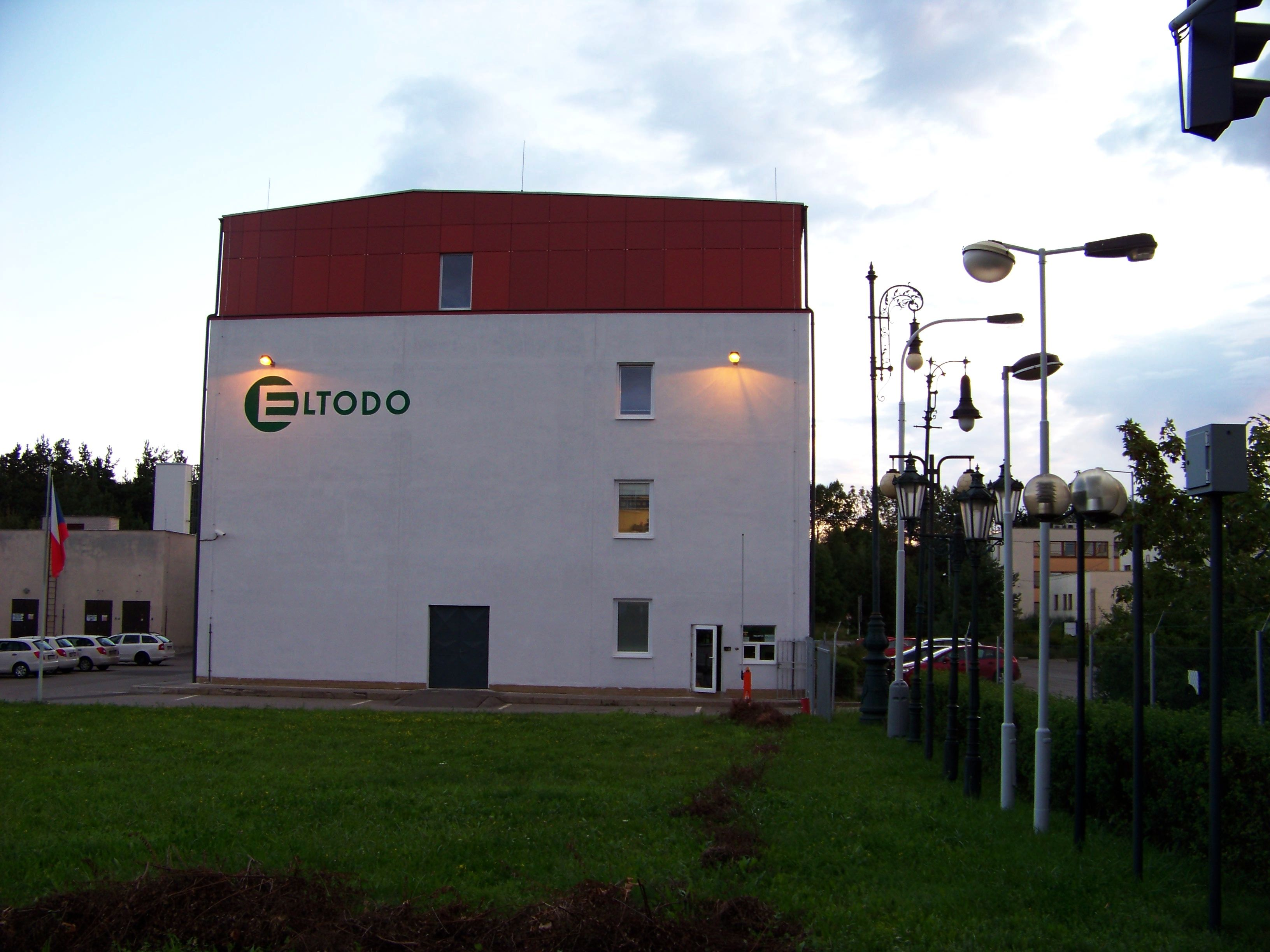 Prague-Chodov, the Czech Republic. Roztyly, Hvožďanská street, Eltodo factory.